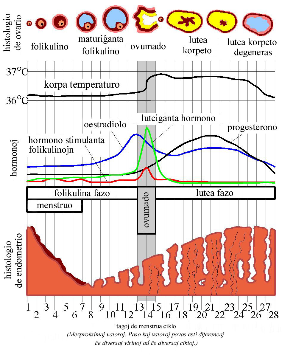 Translated from :commons:Image:MenstrualCycle.png, original image created by :en:User:Chris 73